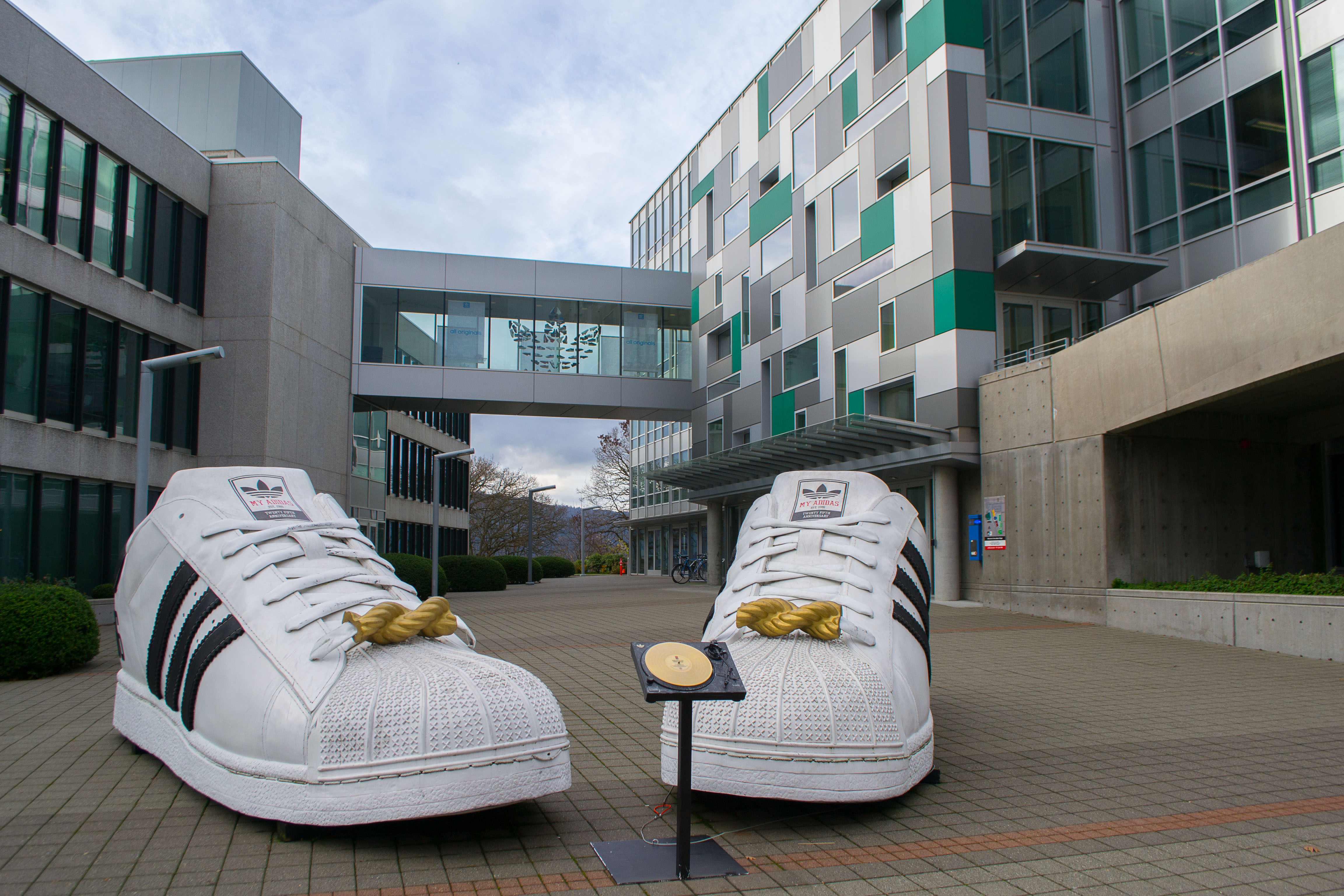 The giant shoes at Adidas Village